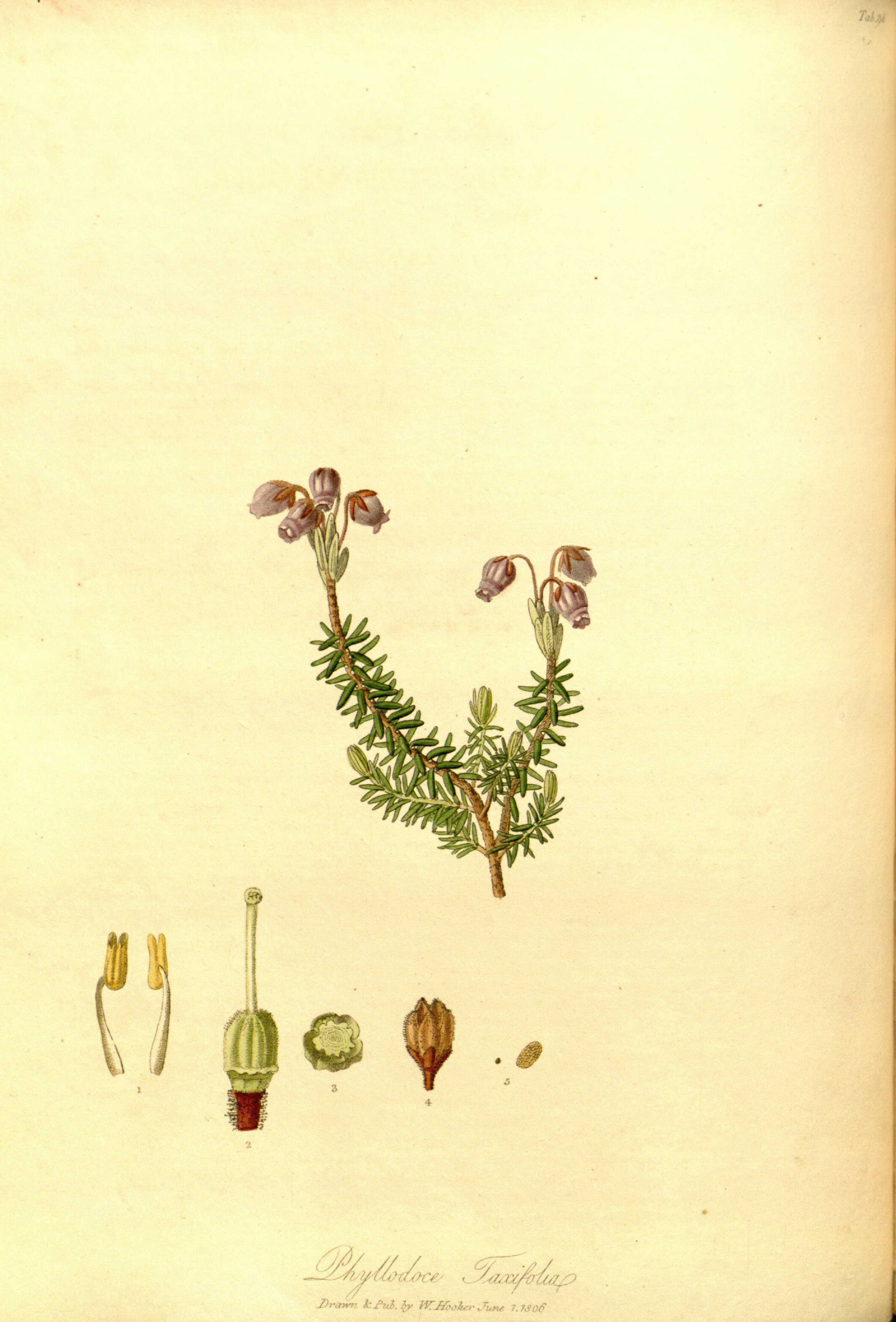 Phyllodoce caerulea as, Phyllodoce taxifolia